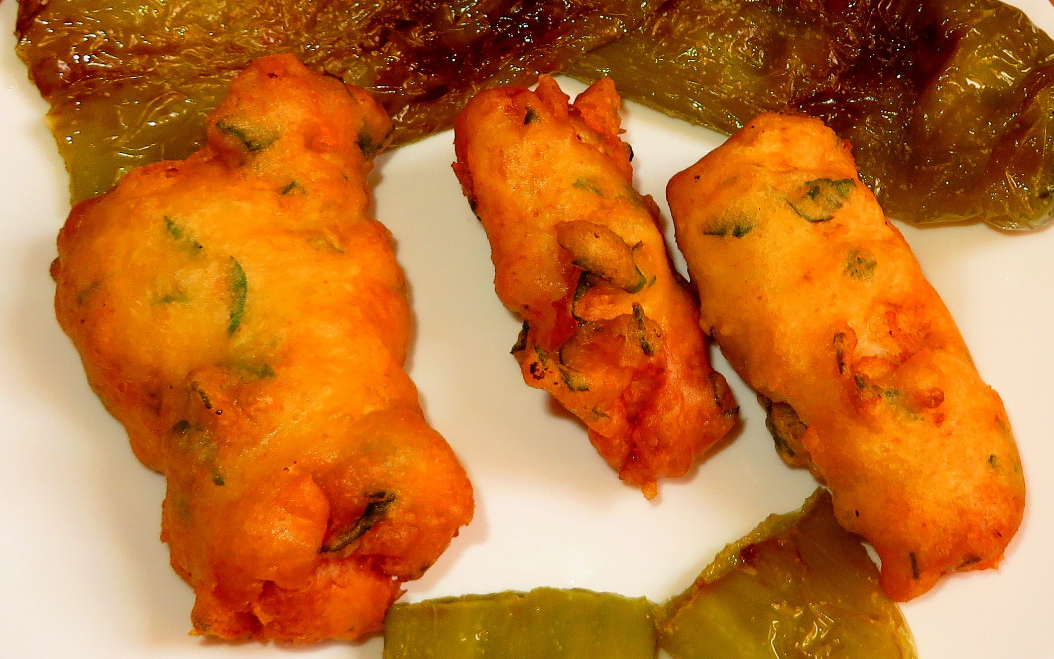 Pavías de bacalao